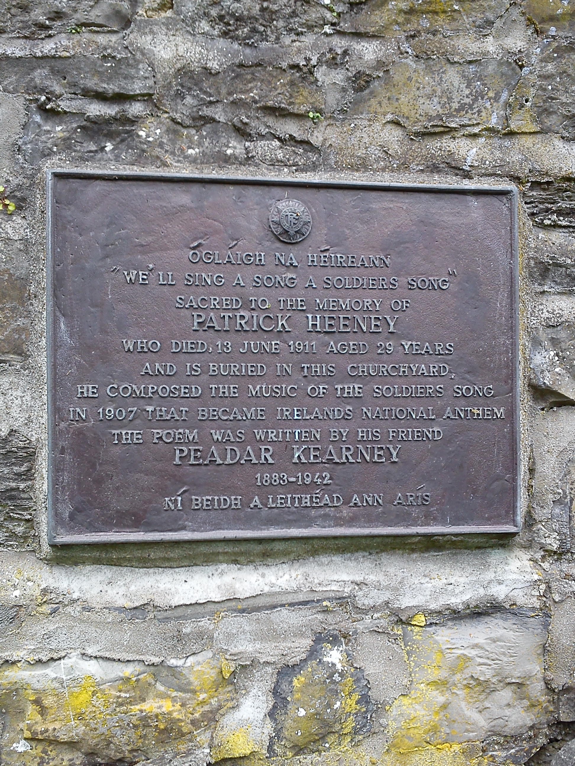 Photo taken at Drumcondra Church of Ireland Church